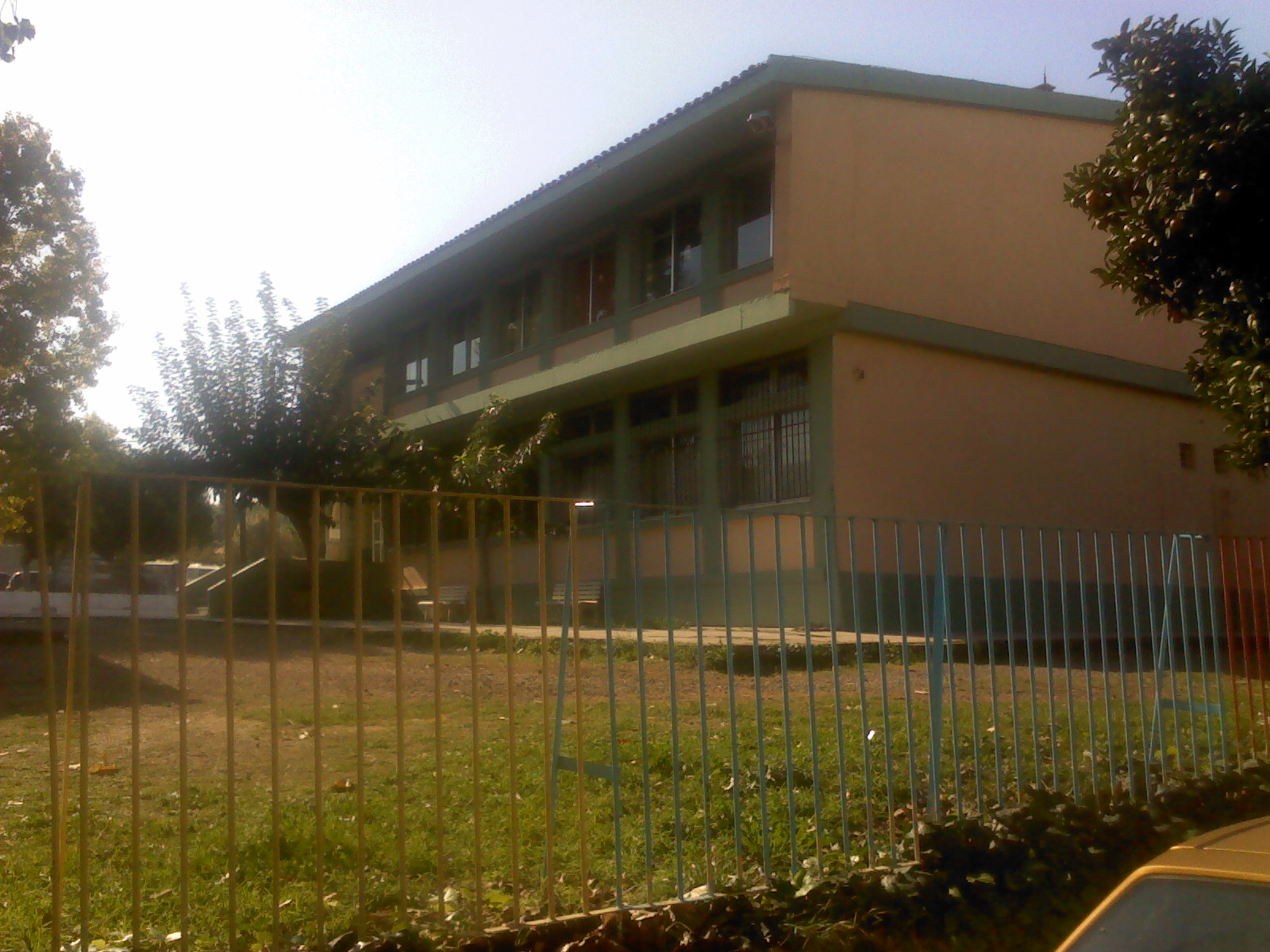 2nd first School Oropos